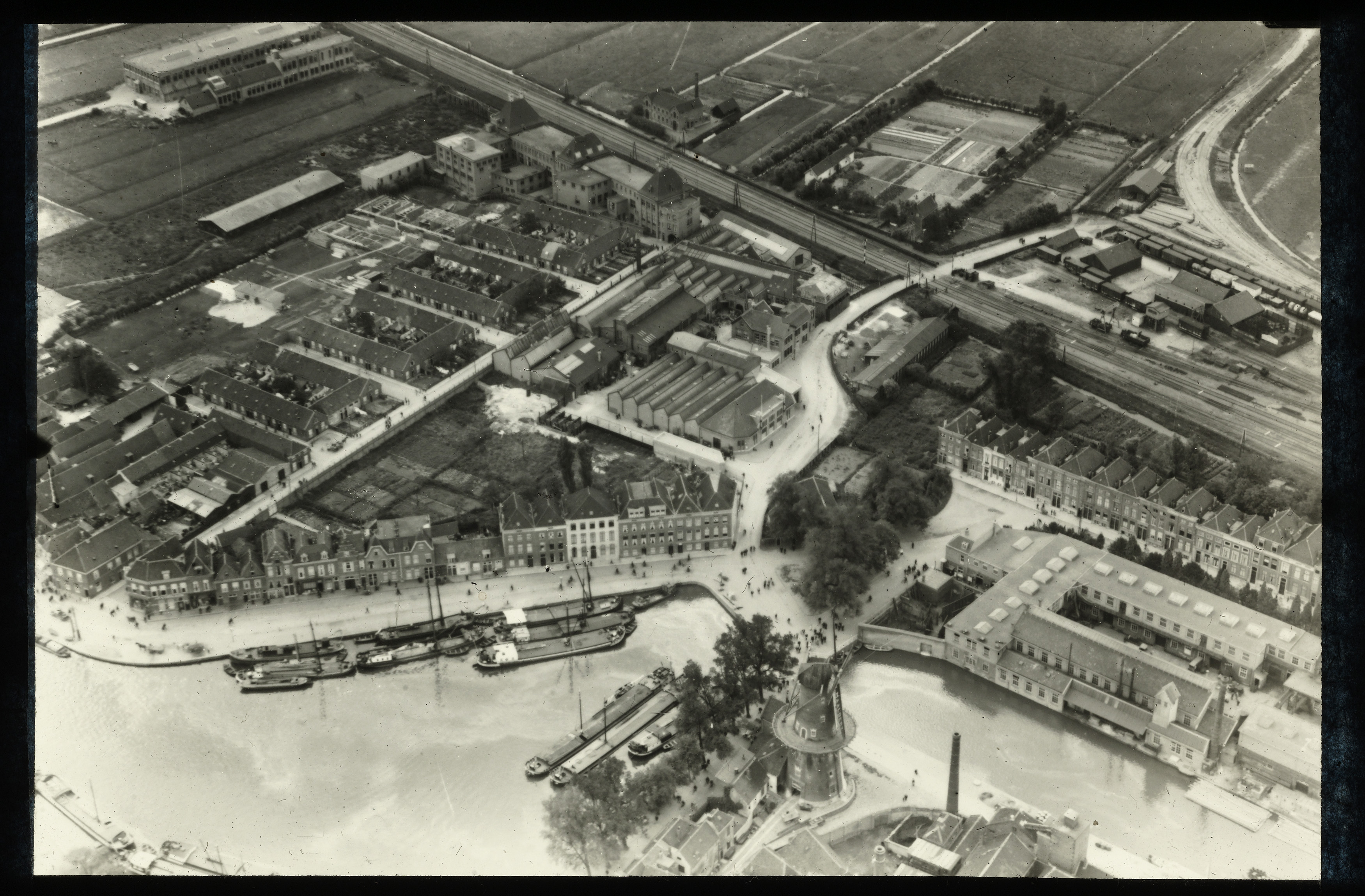 Aerial photograph of Delft, The Netherlands.